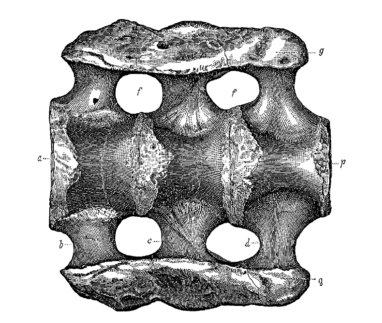 Figure 1.—Sacrum of Apatosaurus ajax Marsh; seen from below. one-tenth natural size, a. first sacral vertebra; b. transverse process of first vertebra ; c. transverse processes of second vertebra; d. transverse process of third vertebra; /. foramen between first and second transverse processes; /•'. foramen between second and third processes; p. last sacral vertebra; g. surface for union with ilium.